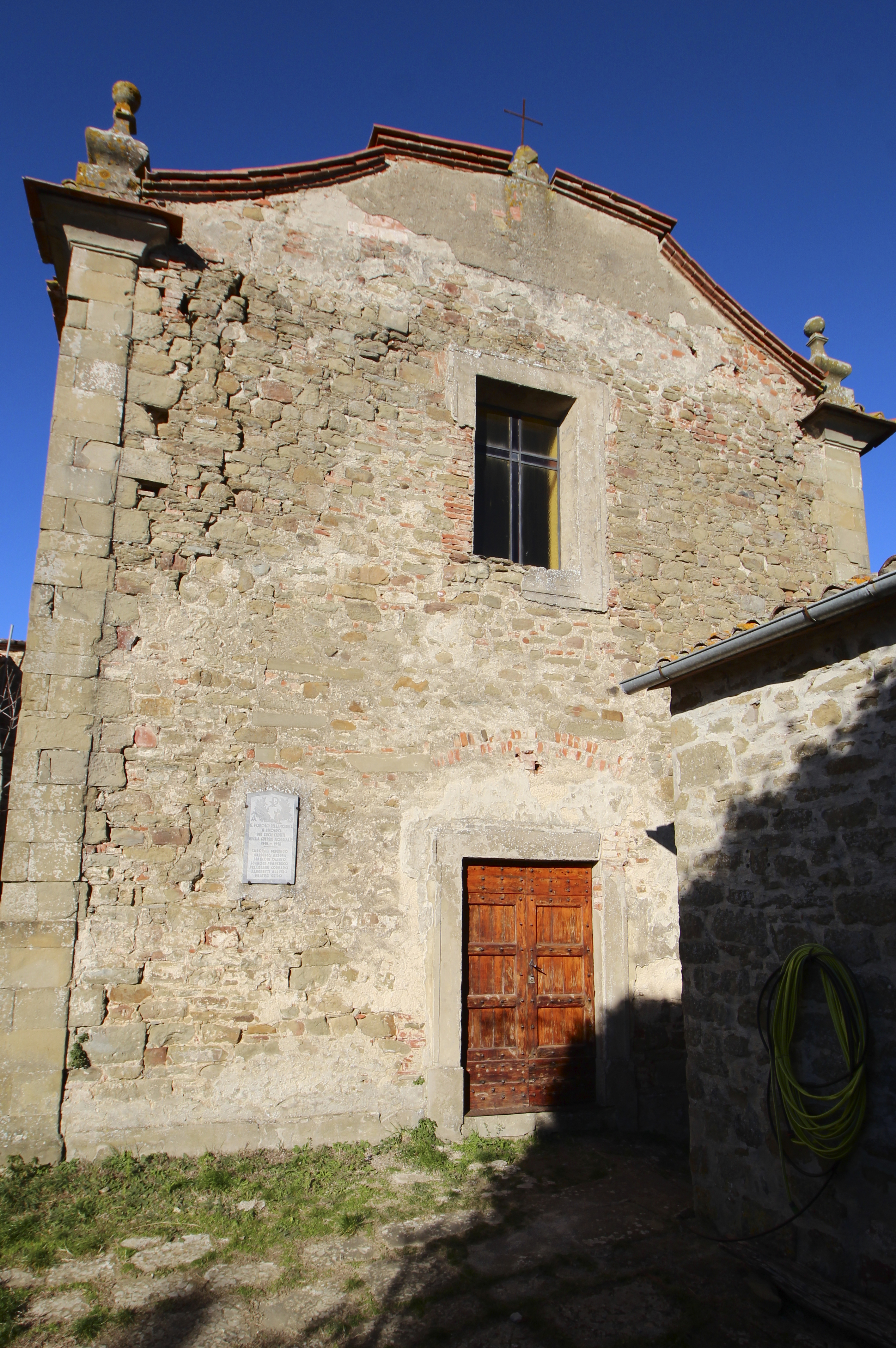 Church San Michele Arcangelo, Cornia, former hamlet of Civitella in Val di Chiana, Province of Arezzo, Tuscany, Italy